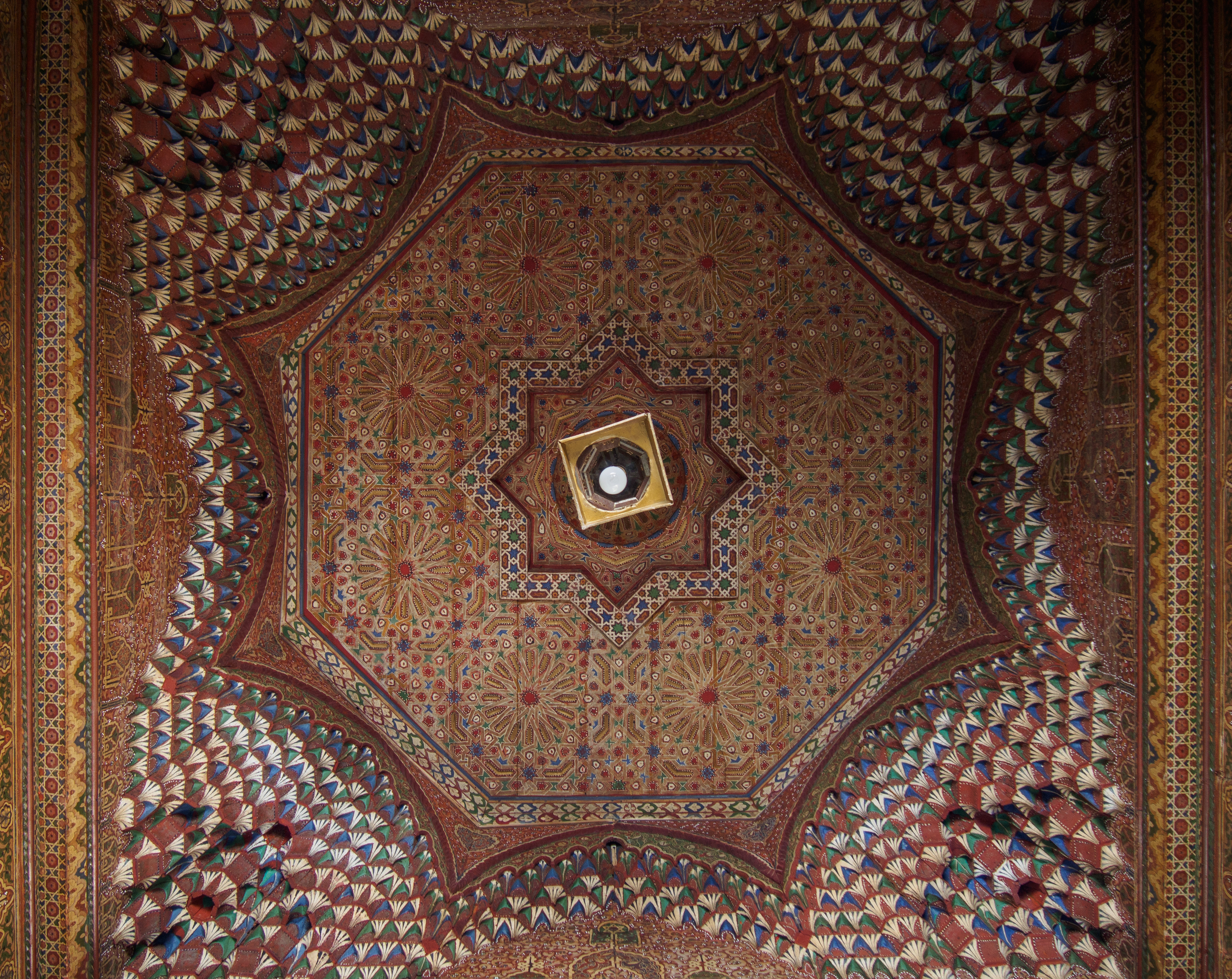 Bahia Palace - ceiling of a pavillion in the large riad of the Bahia Palace